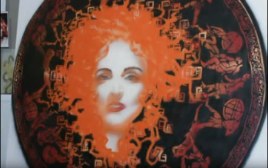 "MADONNA GRAFFITI MEDUSA" (art description)